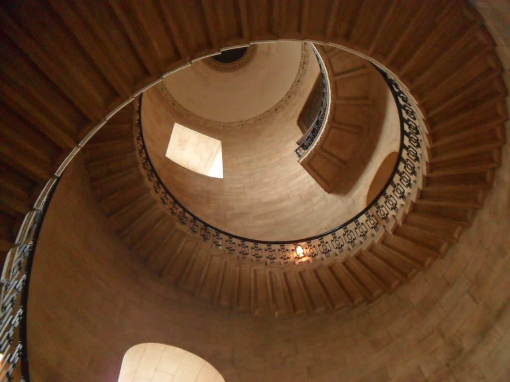 The geometric staircase at St. Paul's Cathedral, London